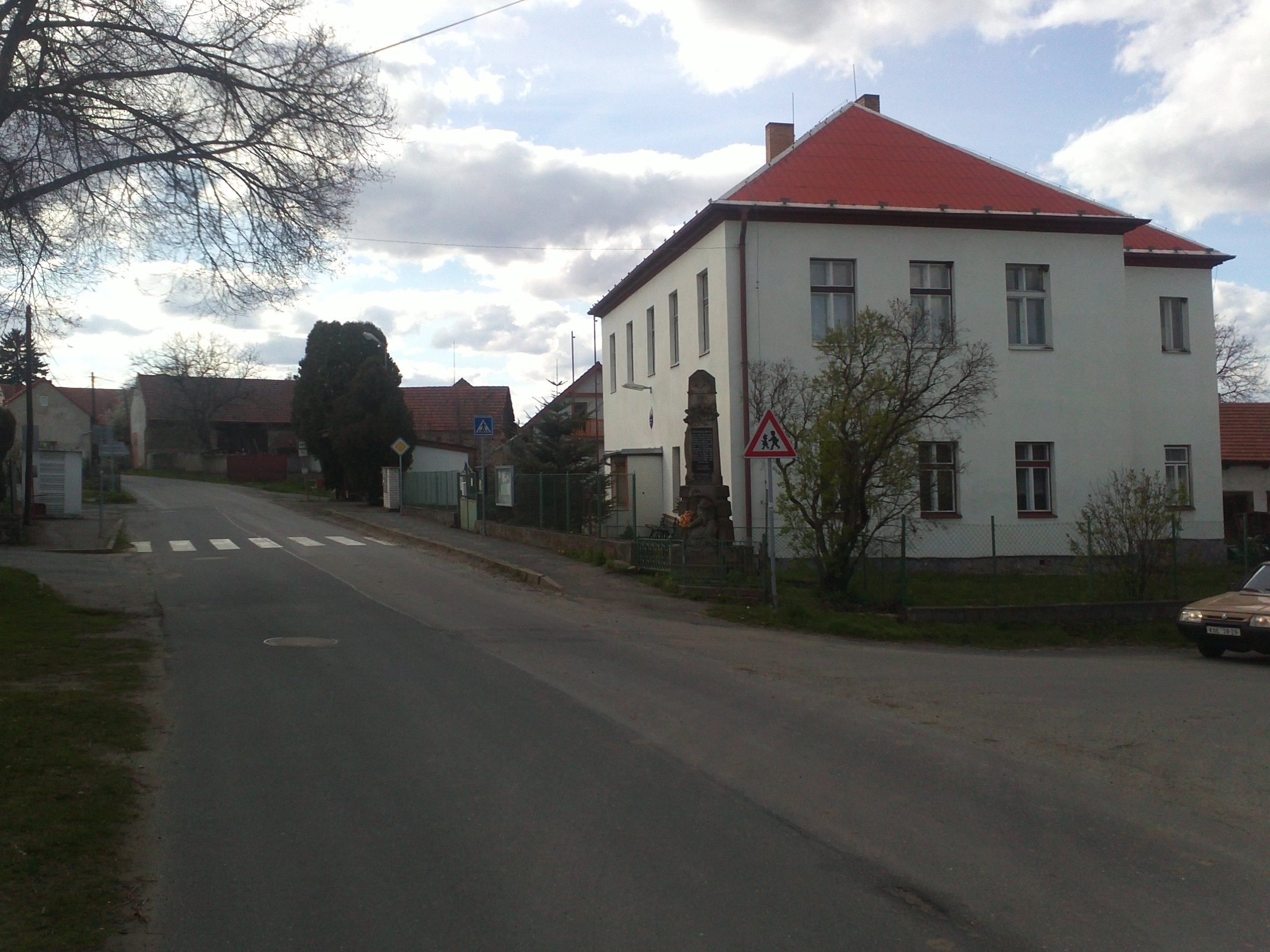 World War memorial and village office in Libodřice village, Kolín District, Czech Republic.